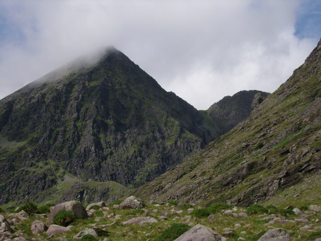 NE face of Carrauntoohil, with Bro O'Shea's Gulley to RHS